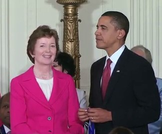 Mary Robinson receiving the Presidential Medal of Freedom in August 2009